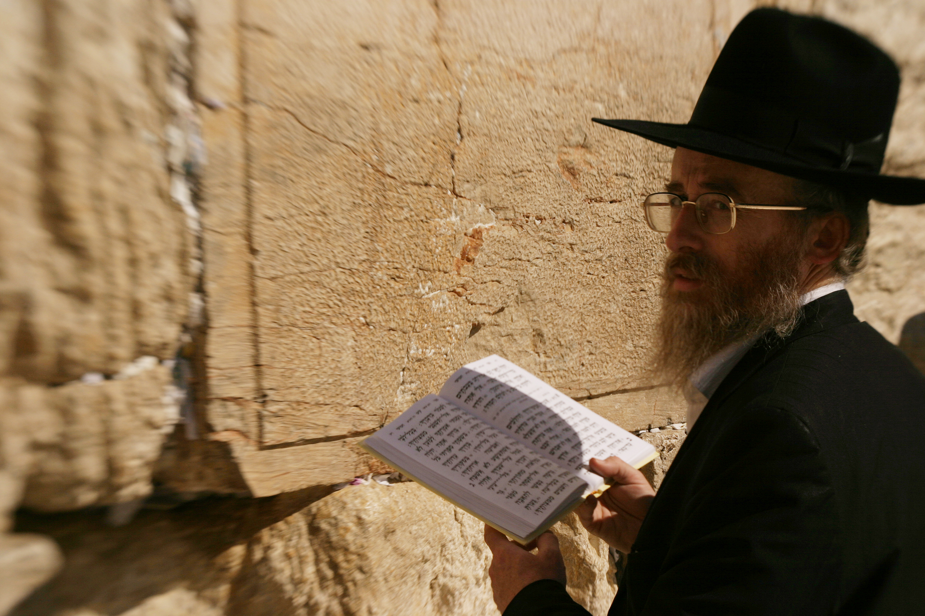 Man reading Psalms at the Western Wall. Jerusalem, Israel/Palestine, March 2007